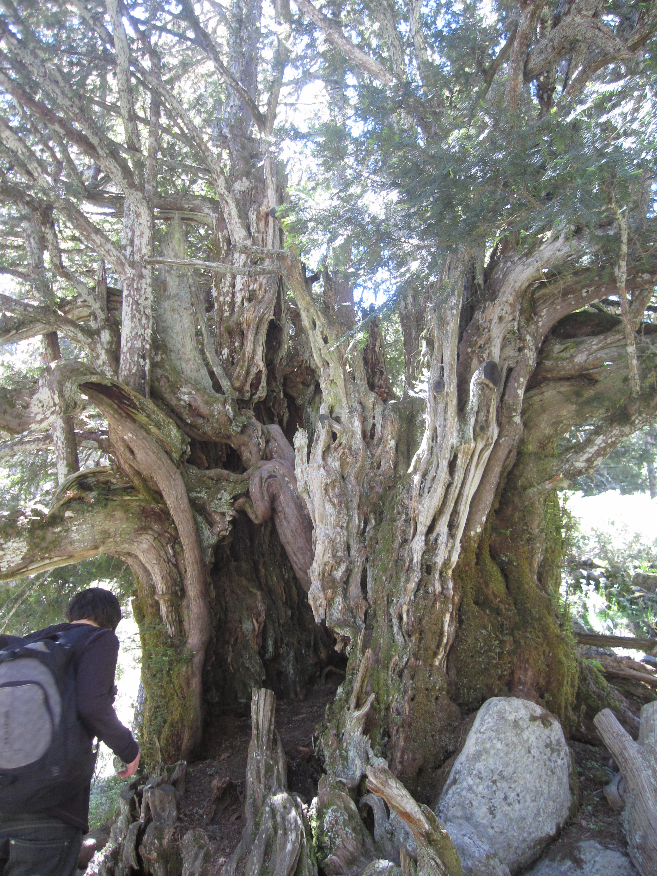 2000-year old taxus called 'Tejo de Barondillo', located in the Guadarrama mountain range, central Spain.